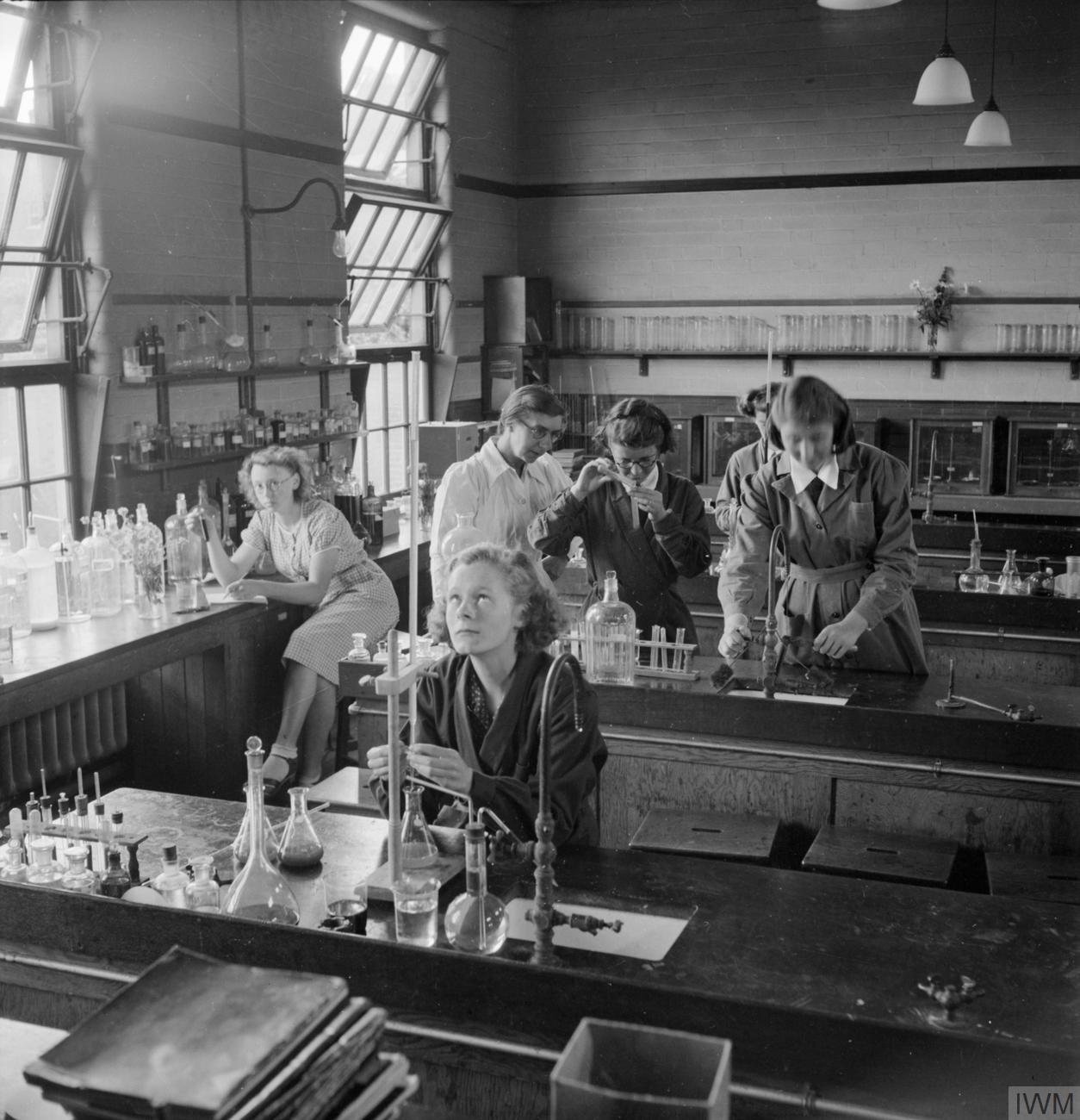 A Picture of a Southern Town- Life in Wartime Reading, Berkshire, England, UK, 1945 Girls at work in the science laboratory at Kendrick Girls' School, Reading.